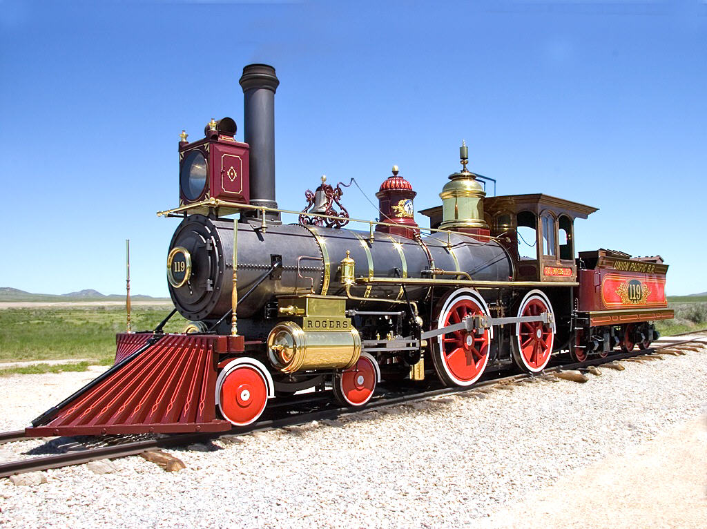 A recreated UP # 119 steam locomotive at the Golden Spike Historic Site in Utah.